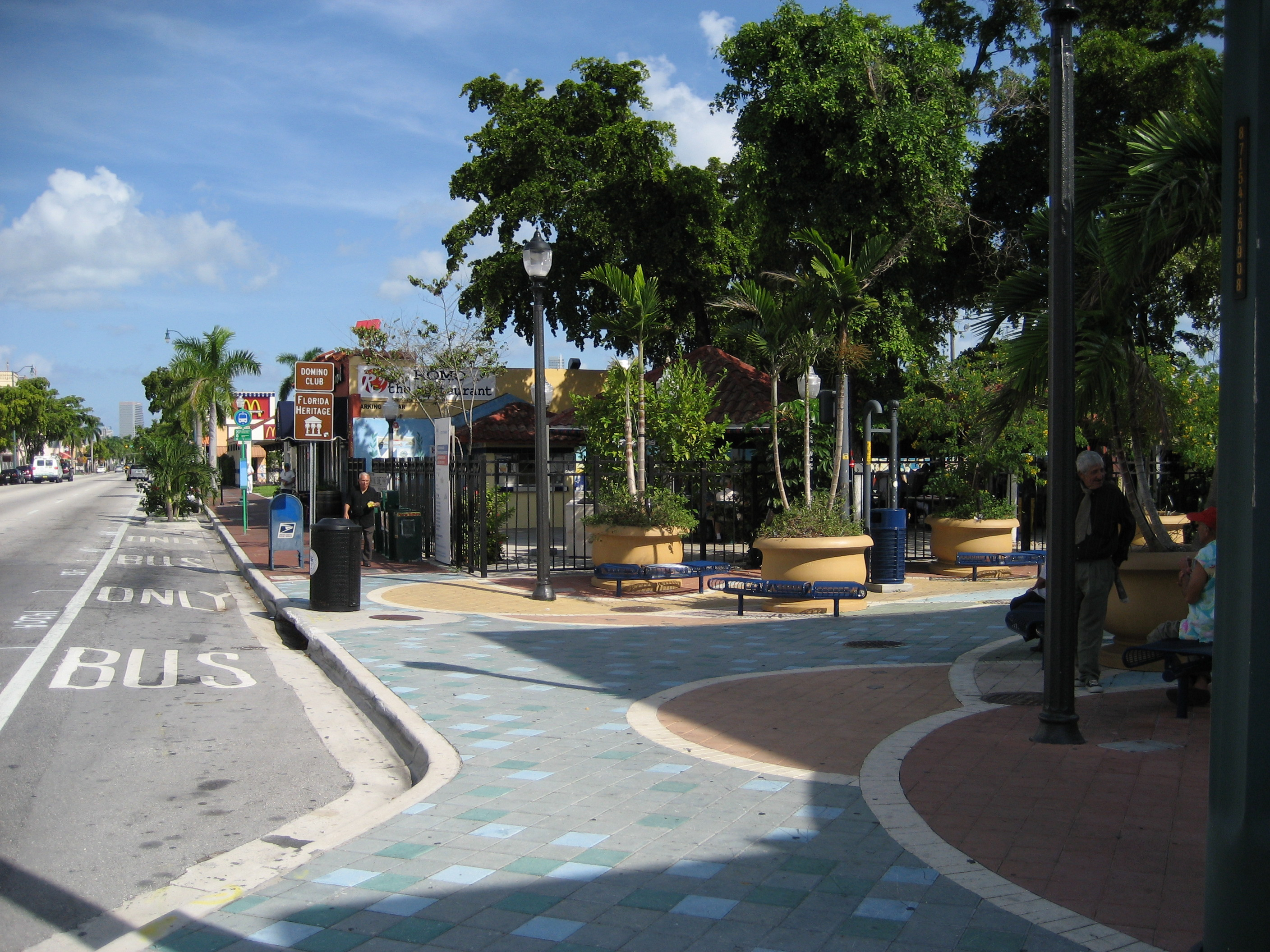 Little Havana district, Miami, Florida. Calle Ocho park known for Domino playing